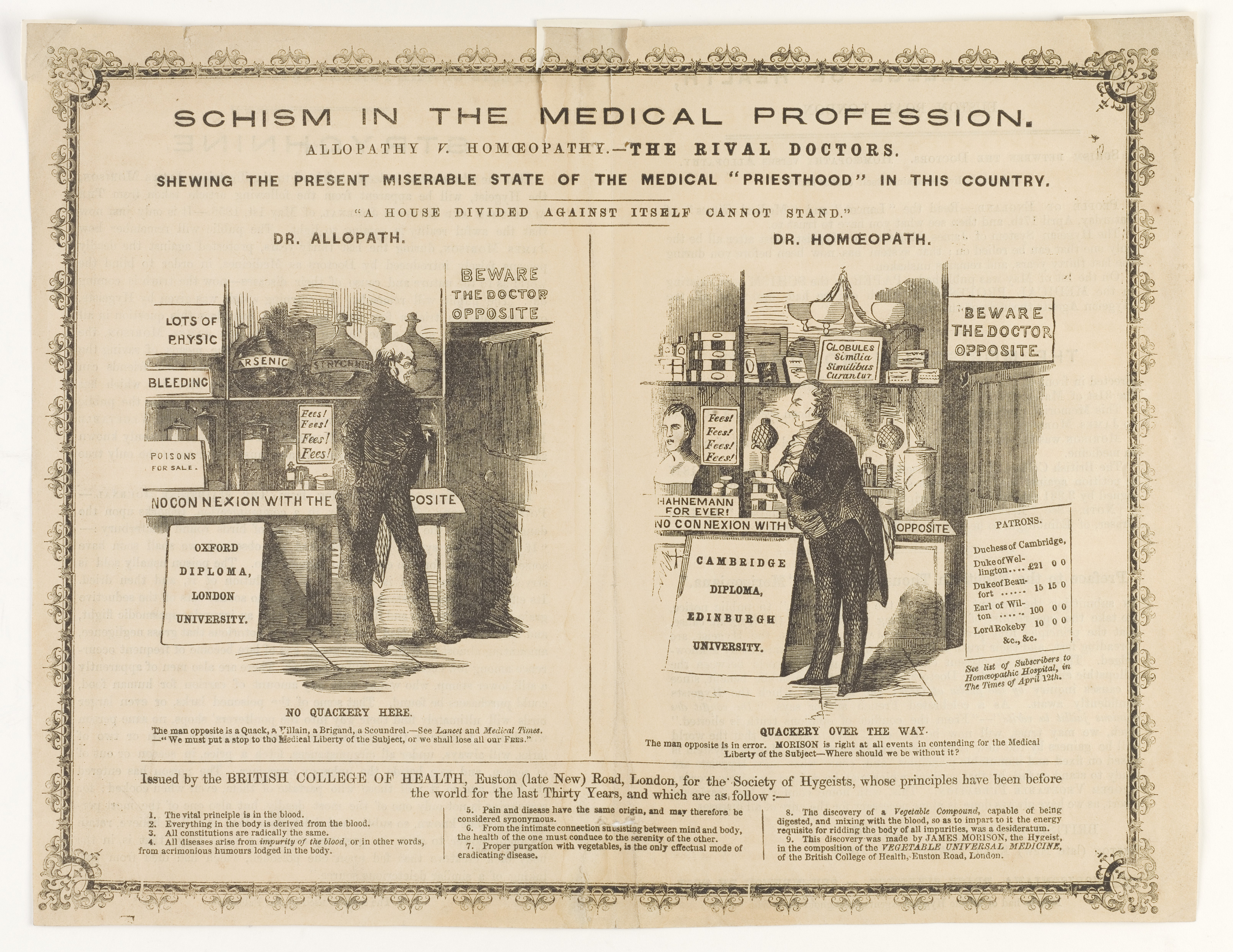 Homeopathy ephemera. Schism in the medical profession. Allopathy v. Homeopathy - the rival doctors. Showing Dr. Allopath and Dr. Homeopath. General Collections